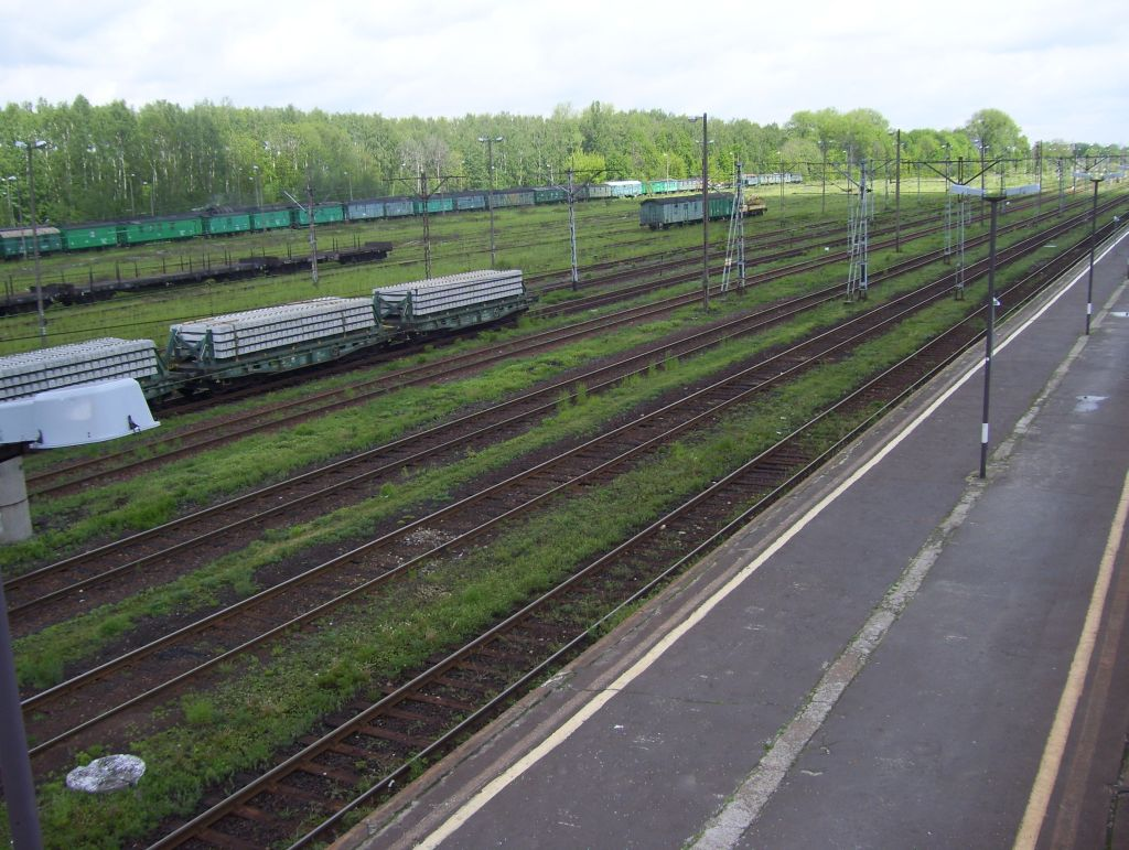 Lodz Widzew train station.